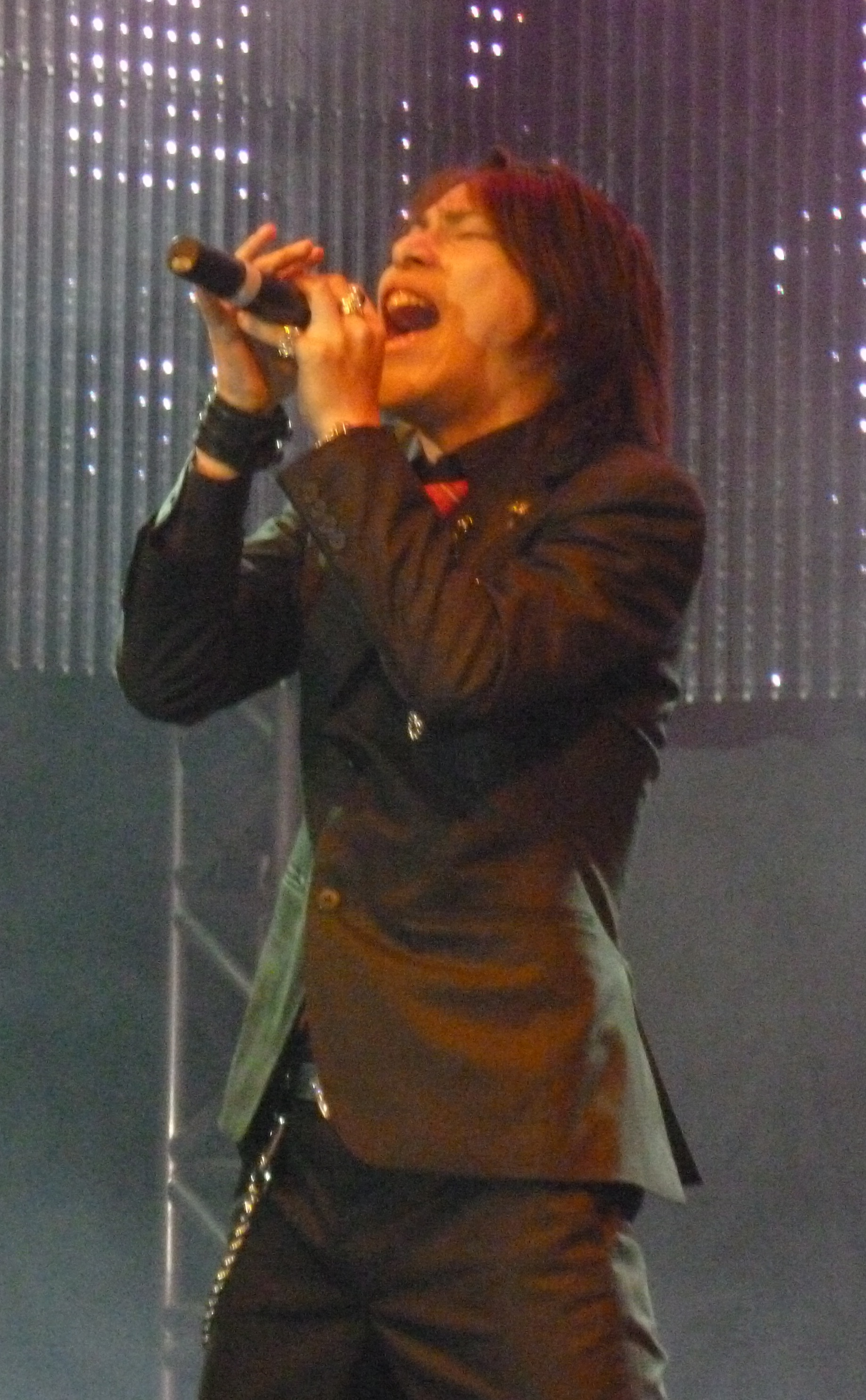 Takayoshi Tanimoto performing at Anime Friends 2012 in São Paulo, Brazil